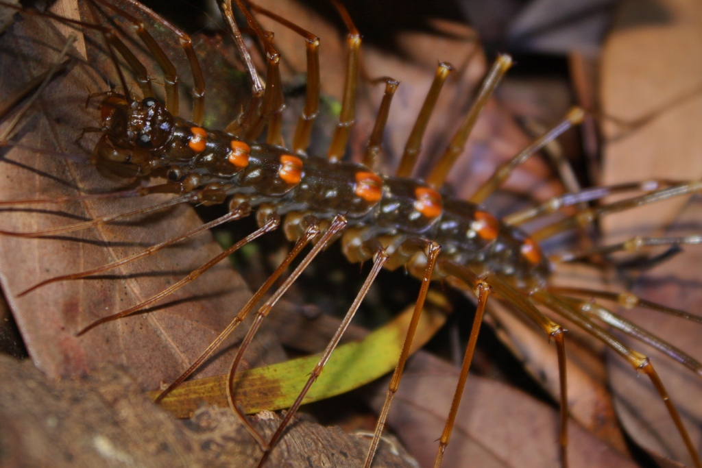 This big beastie was over 10cm long, taken at Tai Mo Shan.